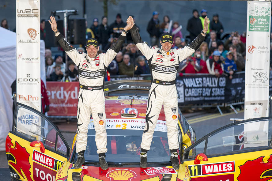 Wales Rally GB 2010 Butetown,Cardiff,Chris Patterson,Citroen C4 WRC,GBR,Großbritannien,Petter Solberg,Petter Solberg World Rally Team,Rally,Rallye,WRC,Wales